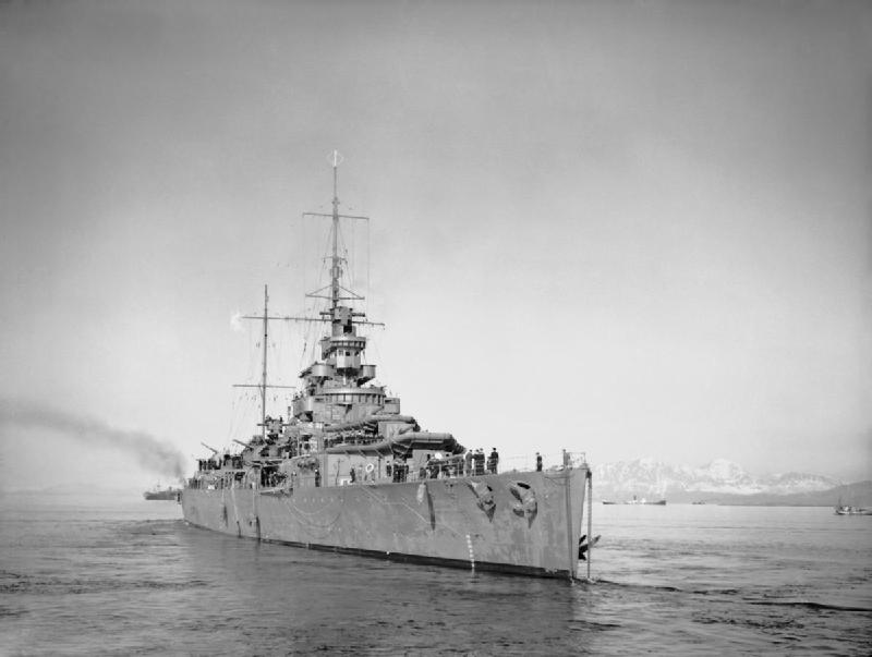 HMS EFFINGHAM at anchor in a Norwegian Fjord